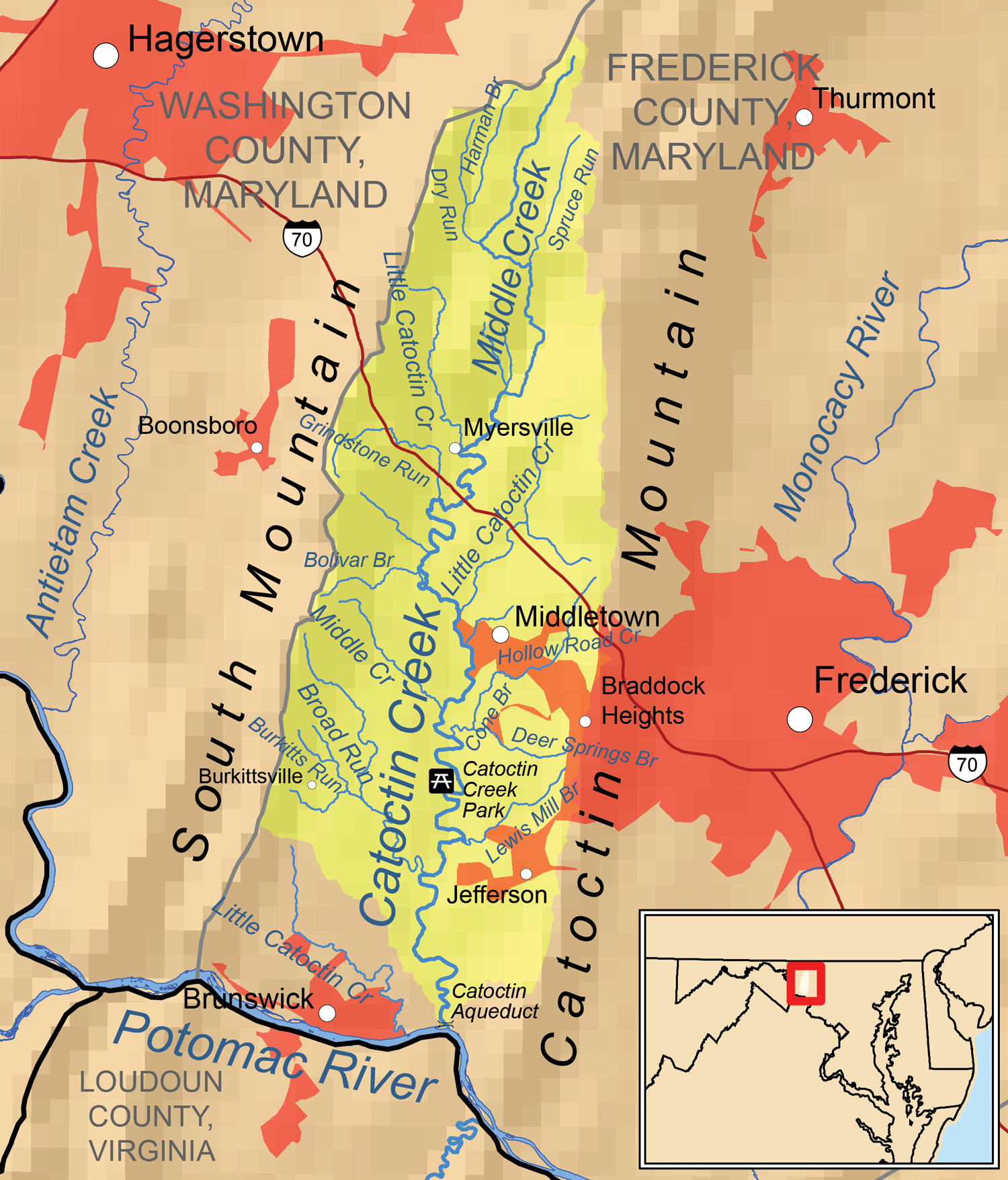 Map of the Tuscarora Creek (Potomac River) drainage basin. The drainage basin is in yellow. Urbanized areas are in red.